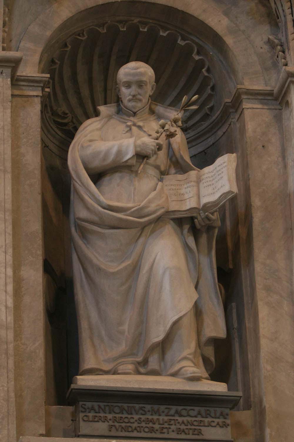 Sculpture of Saint Anthony Mary Zaccaria, at St. Peter's Basilica, Vatican, by Cesare Aureli, 1909